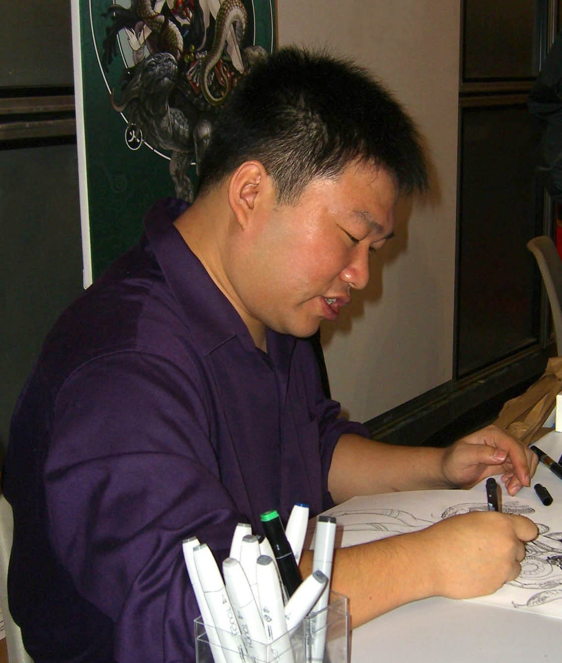 Comics creator Daxiong during an October 16, 2011 appearance at the New York Comic Con in Manhattan. This photo was created by Luigi Novi. It is not in the public domain, and use of this file outside of the licensing terms is a copyright violation.